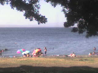 Ranco Lake, Chile – View of Coique Beach Source: sacada de mi celular